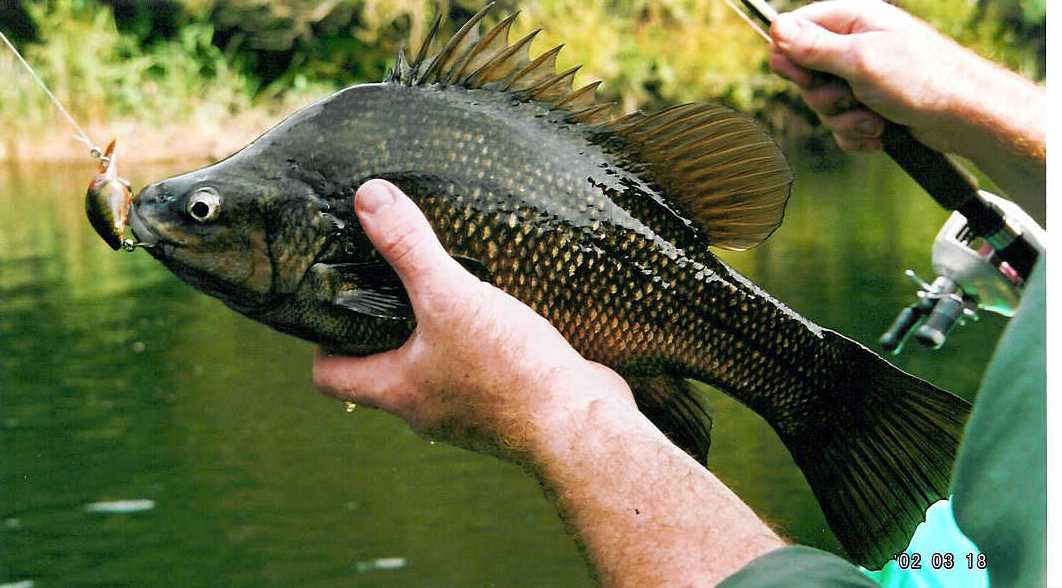 Macquaria australasica A highly endangered Macquarie perch. This exceptionally large specimen was caught on a lure fitted with barbless hooks (visible in the picture) in a high altitude upland river dominated by introduced Trout species and was carefully released. The Macquarie perch is now extinct in most of its upland river habitats due to the total domination of these upland river habitats by introduced Trout species. Gross siltation from agricultural practices and flow regulation and thermal pollution by dams have also caused the extinction of Macquarie perch in some upland rivers.